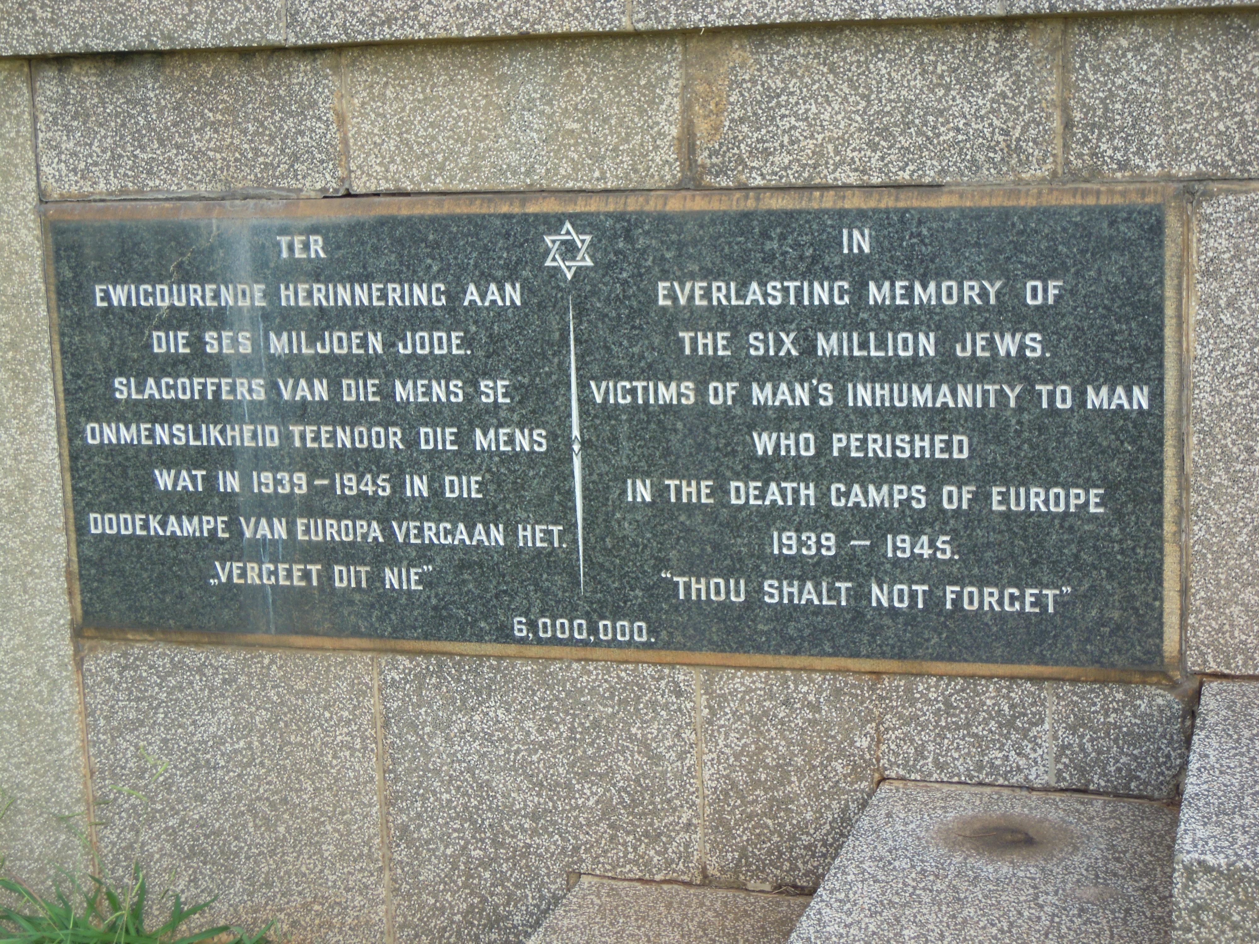 Hashoah memorial in West Park Cemetery Johannesburg South Africa